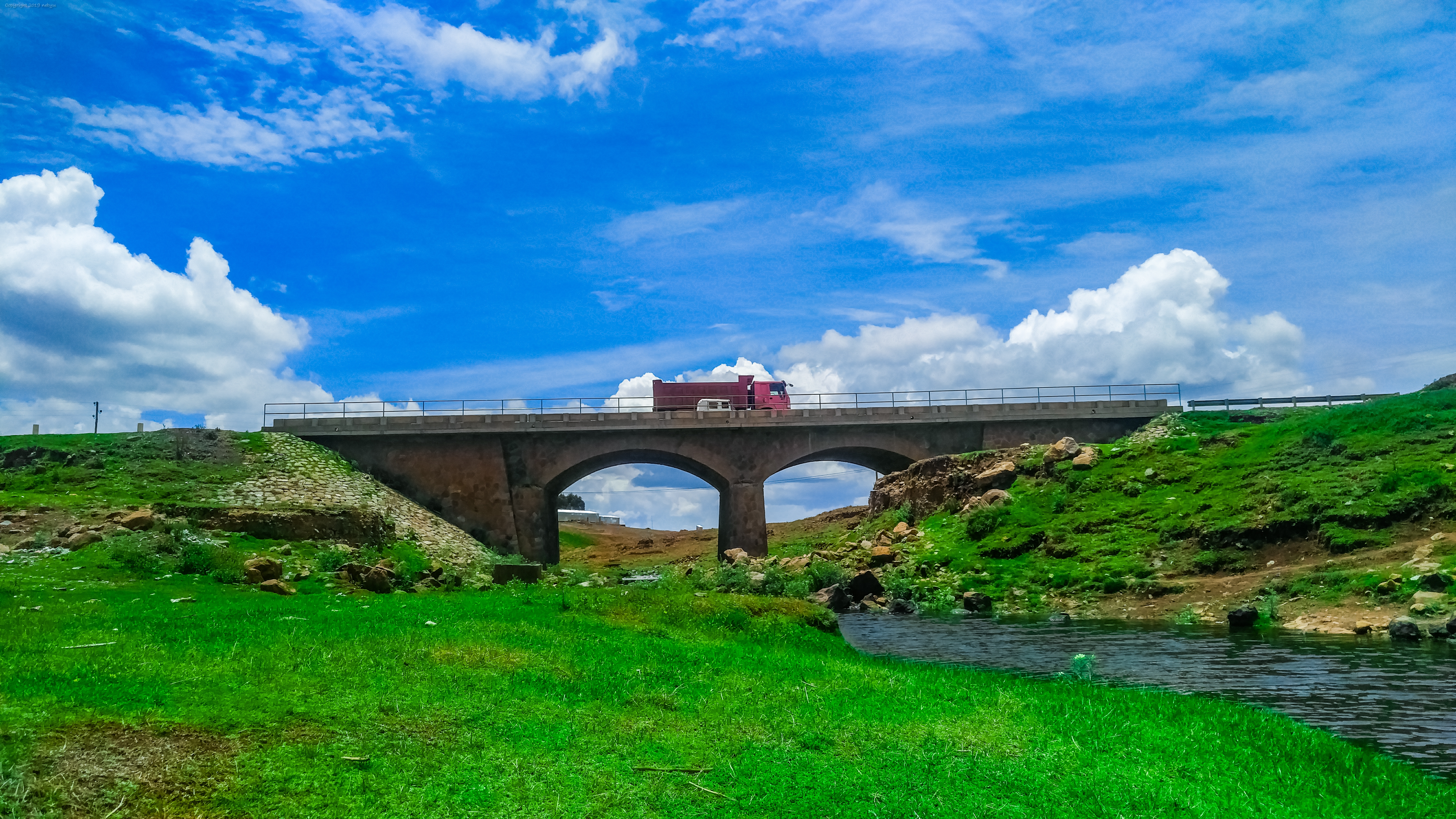 This is an image with the theme "Africa on the Move or Transport" from: Ethiopia